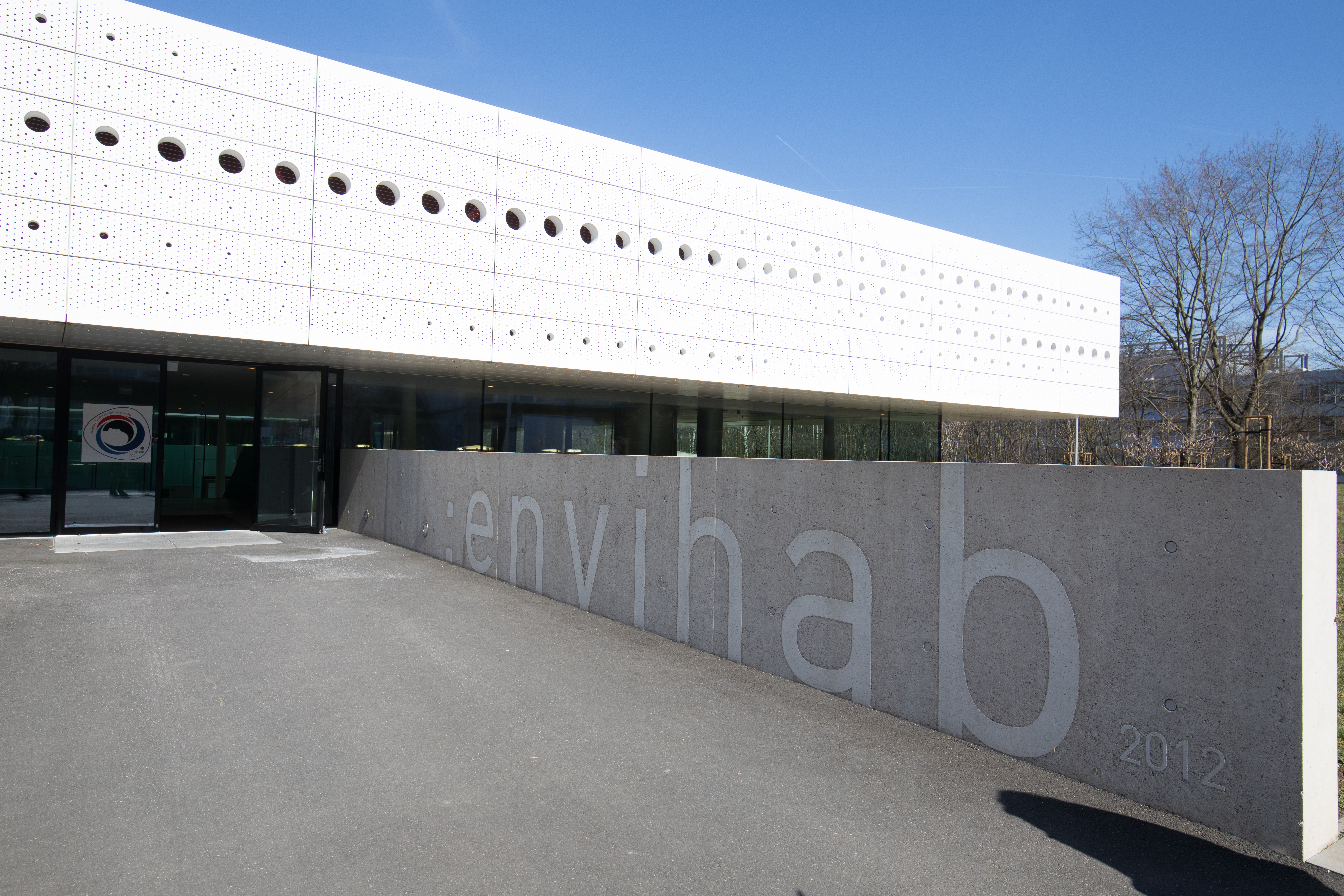 envihab, DLR Köln